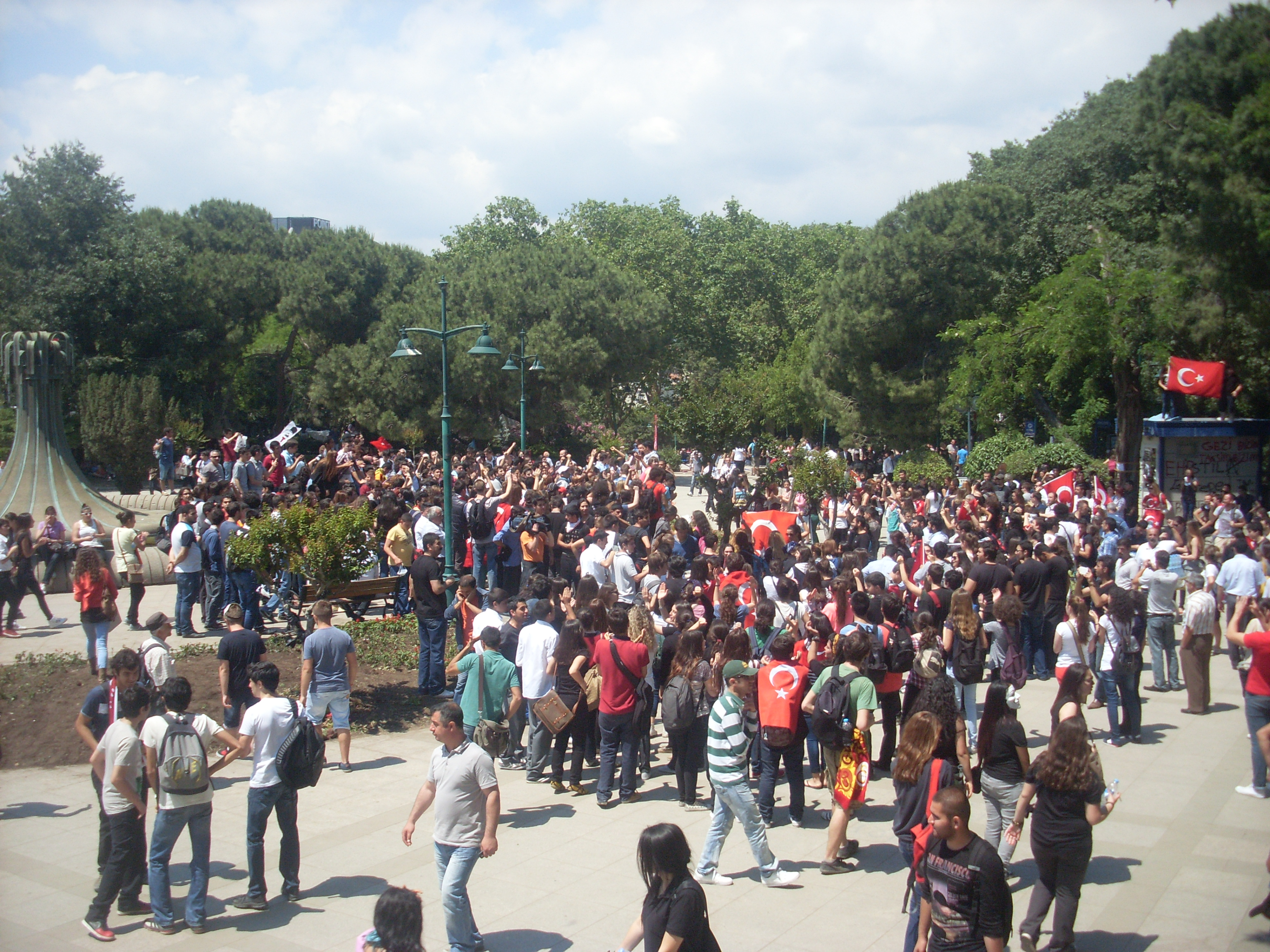 View from Taksim Gezi Park on 3rd Jun 2013